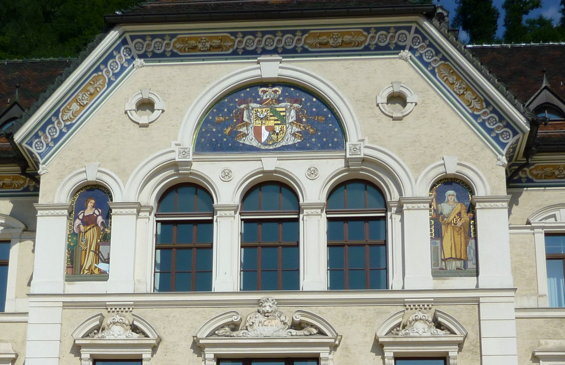 Ornaments on the gouvernment building of Liechtenstein